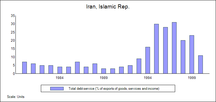 Total debt service (% of exports of goods, services and income), Iran (1980-2000)